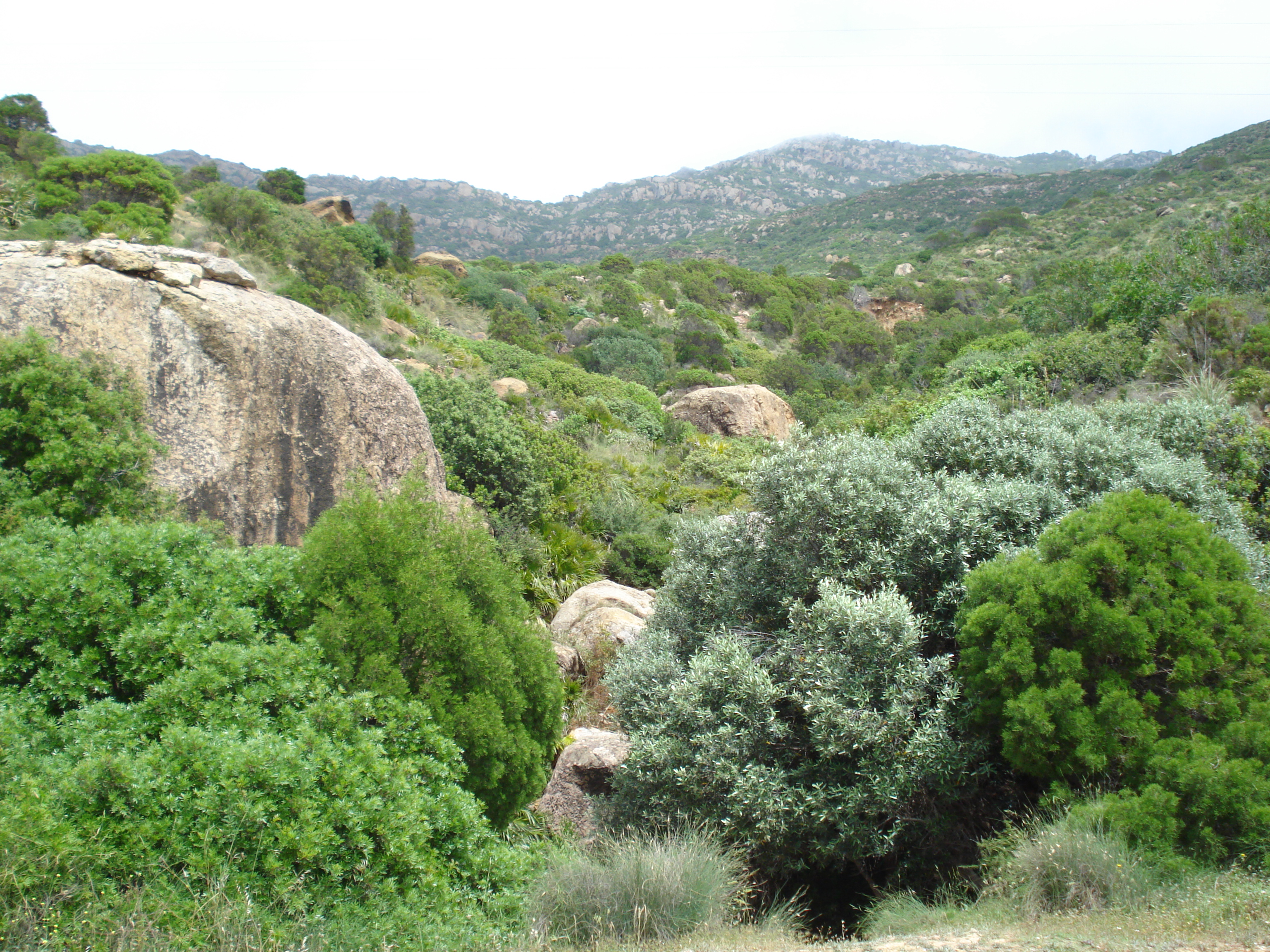 Jebel Korbous, Cap Bon, North-East of Tunisia